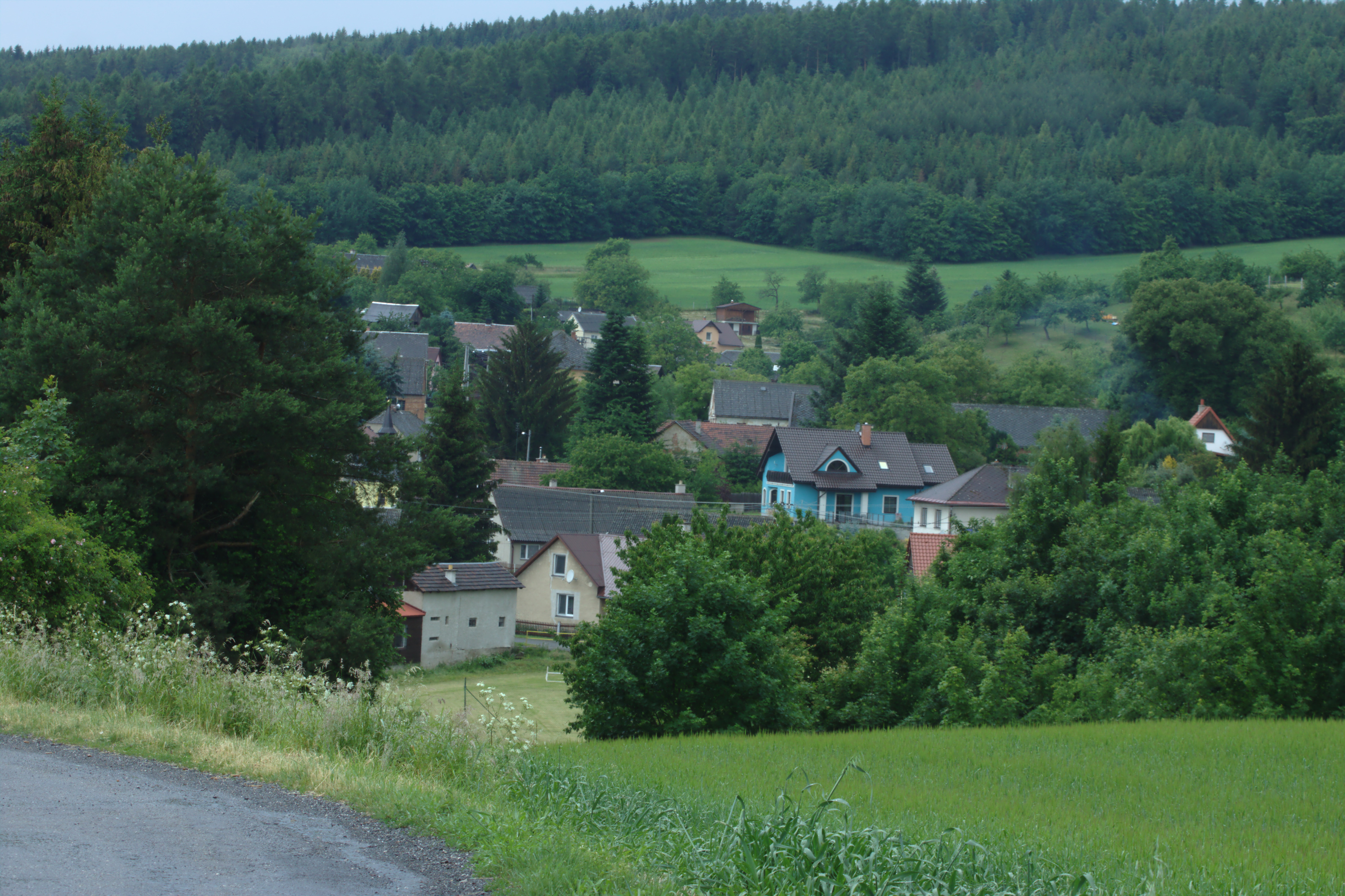 The village of Lipinka seen from east, Olomouc Region, CZ